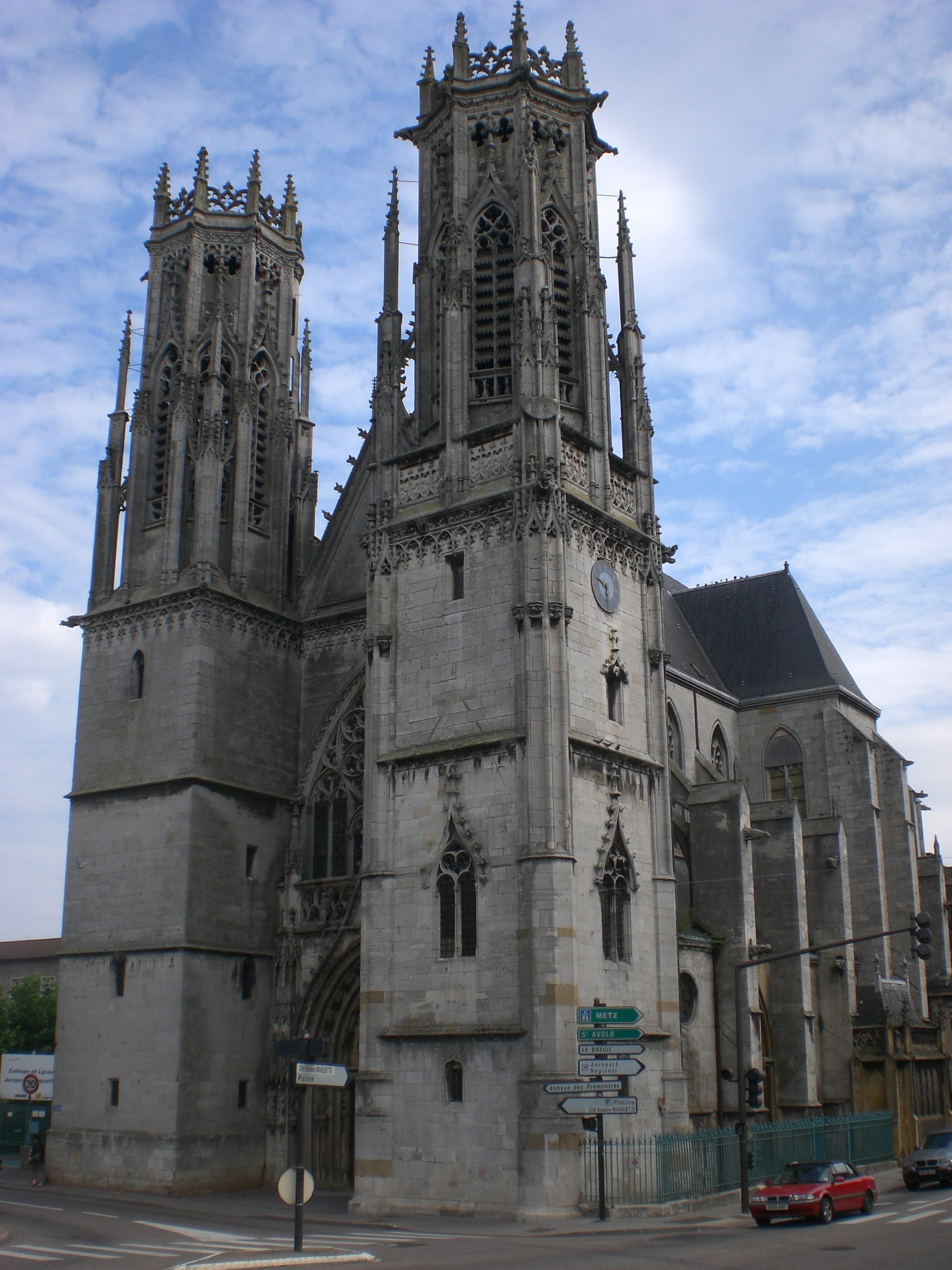 Pont-à-Mousson, St. Martin's Church, XV Century